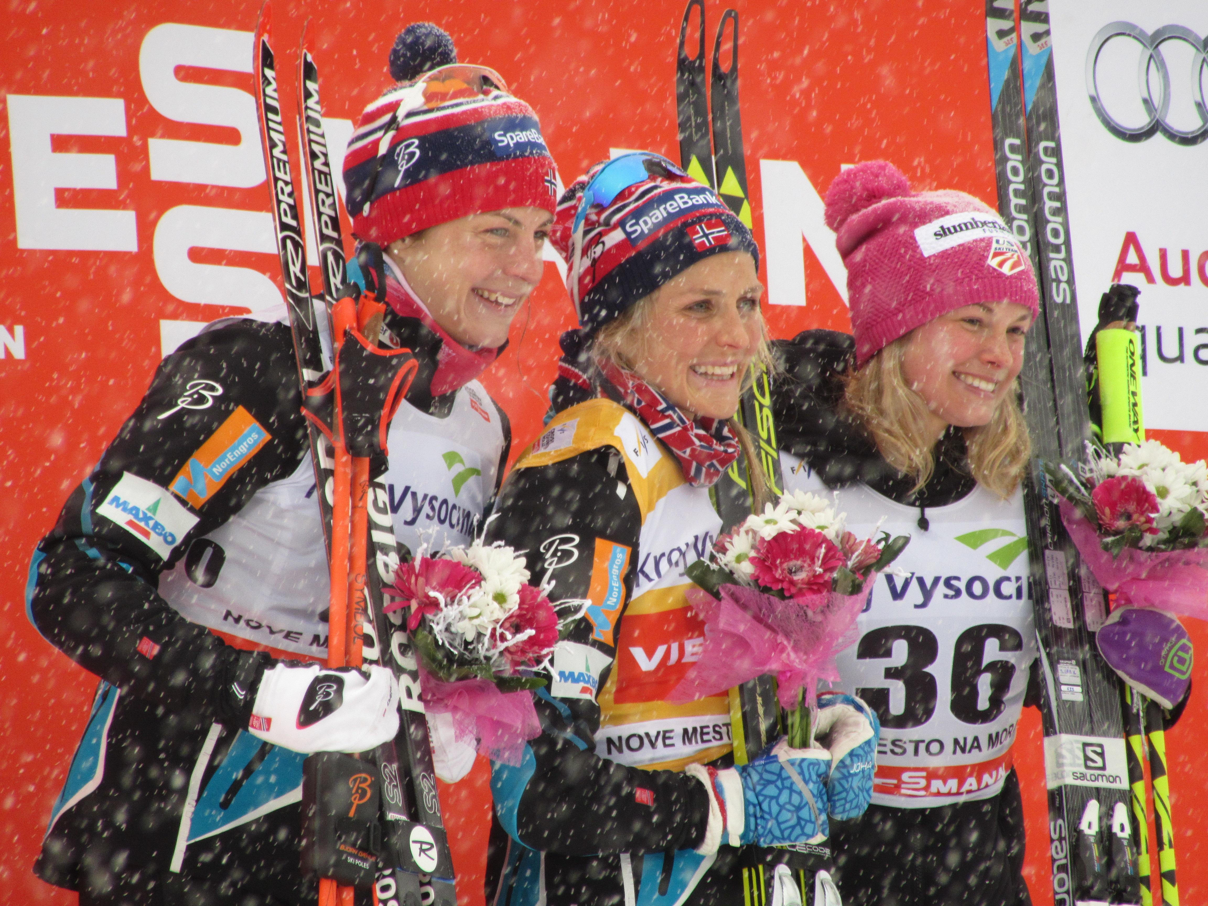 Therese Johaug (winner), Astrid Jacobsen (2nd) and Jessica Diggins (3rd) at flower ceremony after 10 km free race in Nové Město na Moravě in 2015/2016 World Cup season.